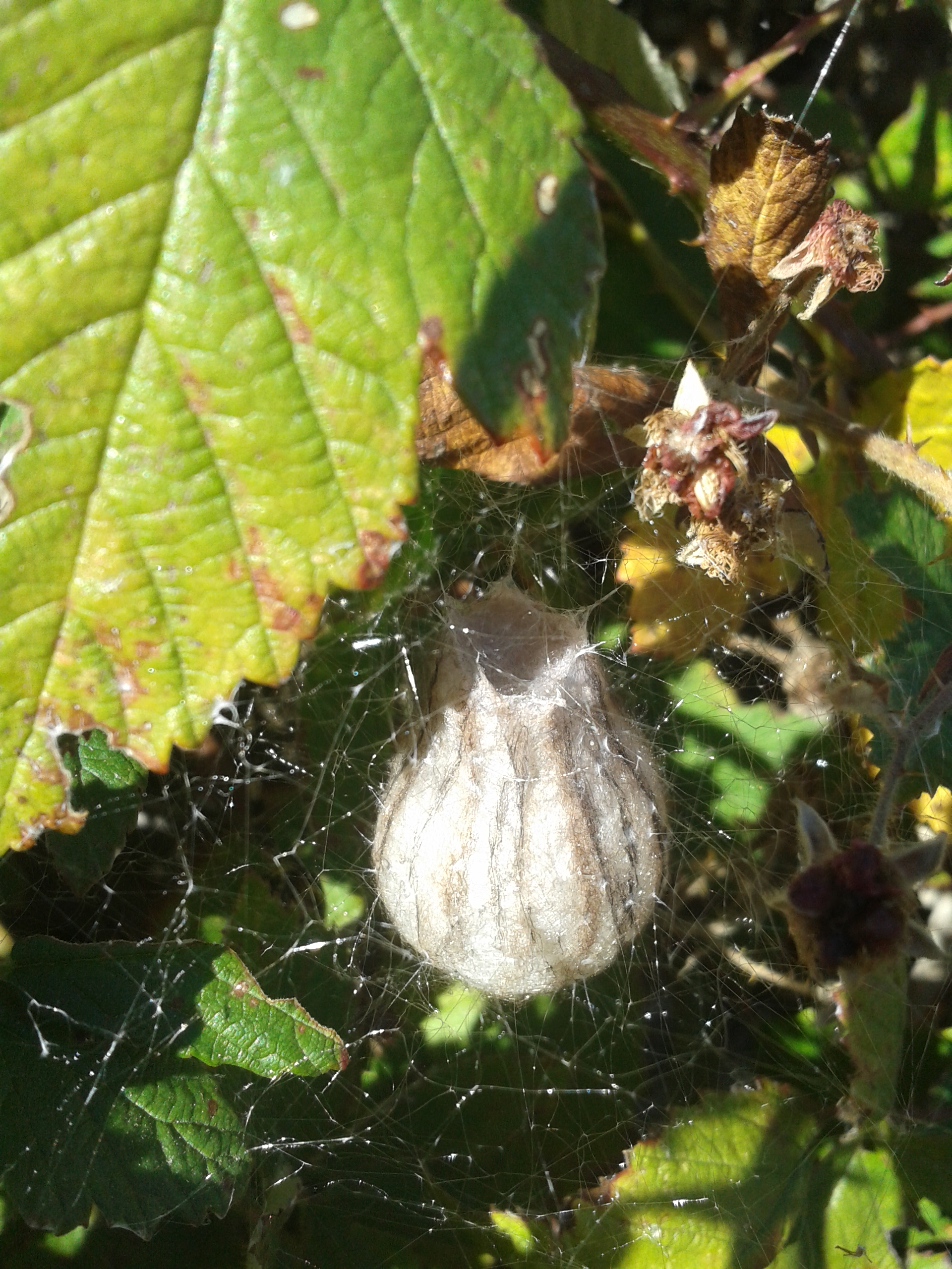 Wasp Spider Nest, Bulbous bulb silk nest 1